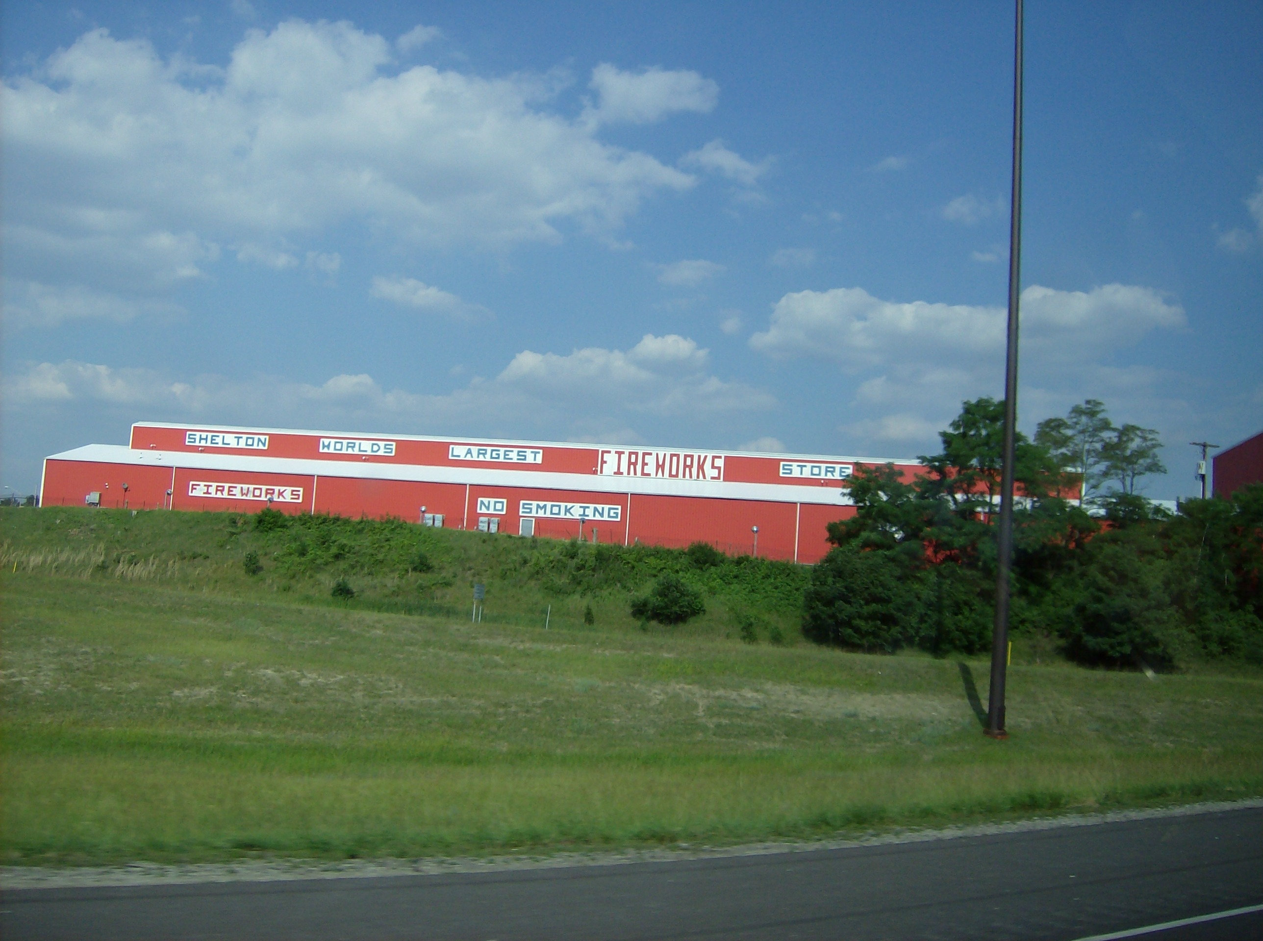 View of the Shelton Fireworks store on the Indiana and Ohio border in Richmond, Indiana, United States. This store's location is the result of state fireworks laws that permit purchase of fireworks but restrict their use inside the state.